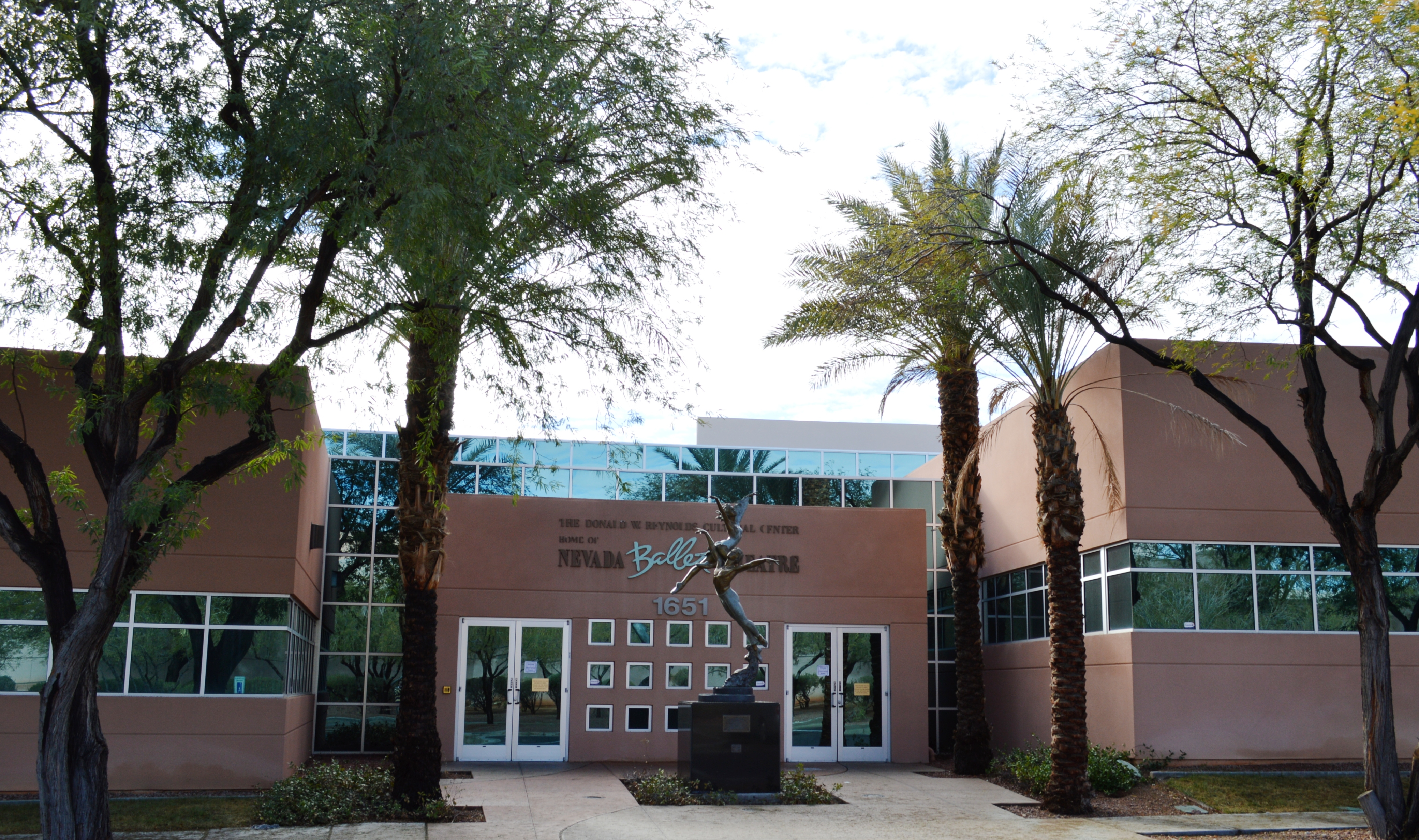 Donald W. Reynolds Cultural Center, a.k.a. the home of the Nevada Ballet Theatre (related 2012 press release in PDF) in Summerlin, Nevada, U.S.A. Summerlin is a new master-planned community partially in the city of Las Vegas and partially in an unincorporated area of Clark County (as of 2013).